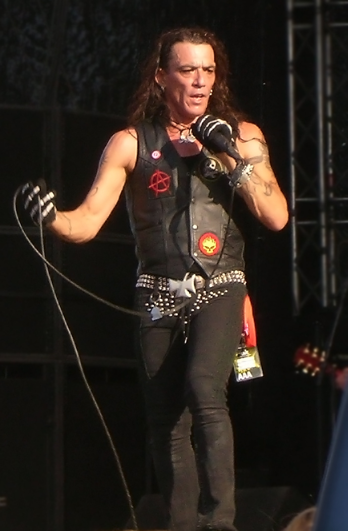 Stephen Pearcy, lead singer of the glam metal band Ratt, performs with the band at Sweden Rock Festival in 2008.